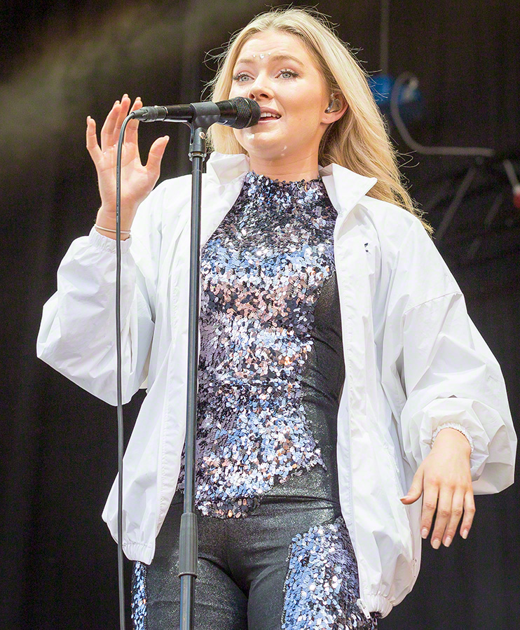 Astrid S at the main stage during Stavernfestivalen in Stavern on 09. July 2016. Lineup:Astrid S (vocal)Unidentified musician (drums)Unidentified musician (keyboard)